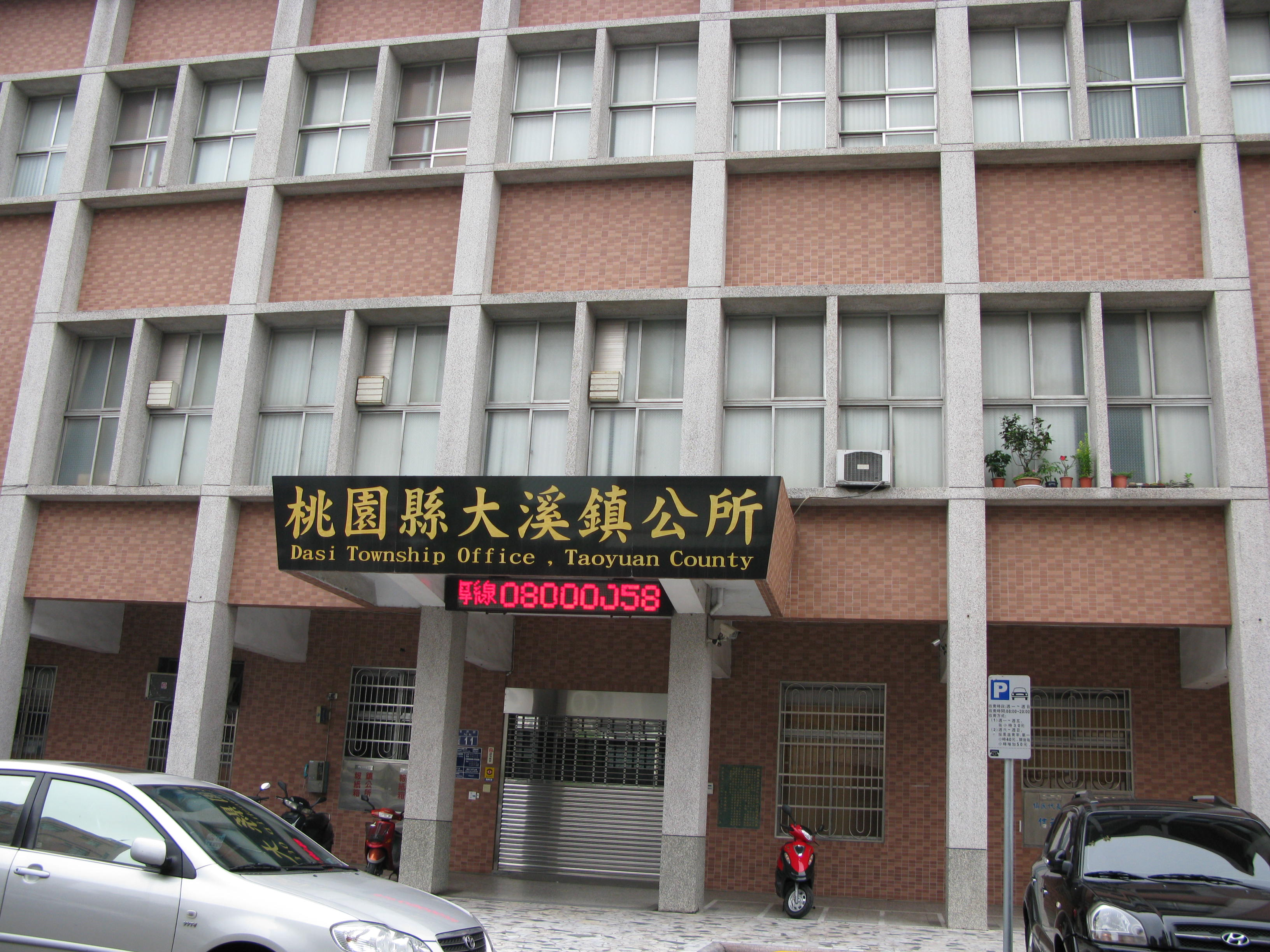 Dasi Township Office, Taoyuan County